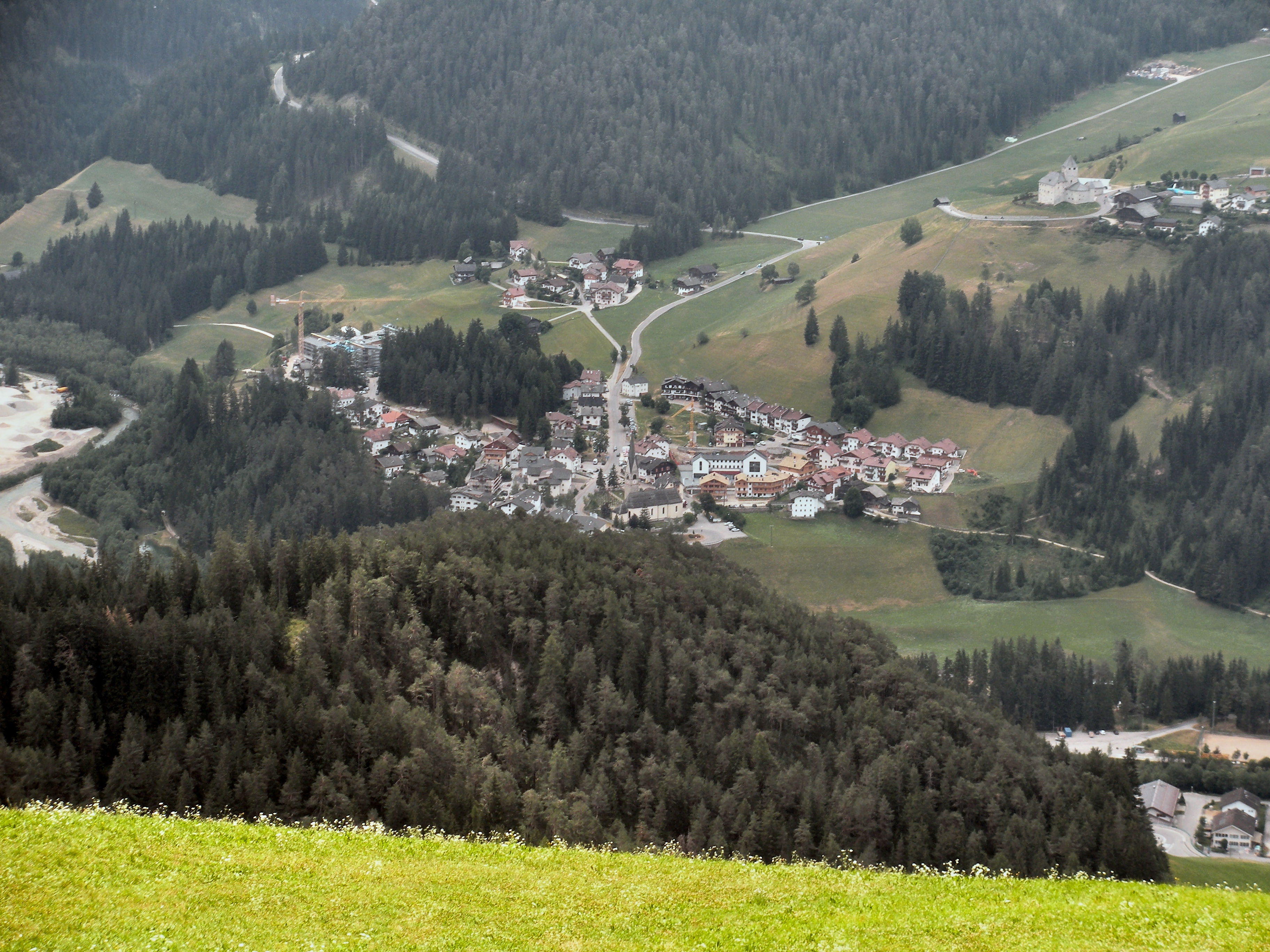 View of San Martino in Badia (Sudtirol, Italy)